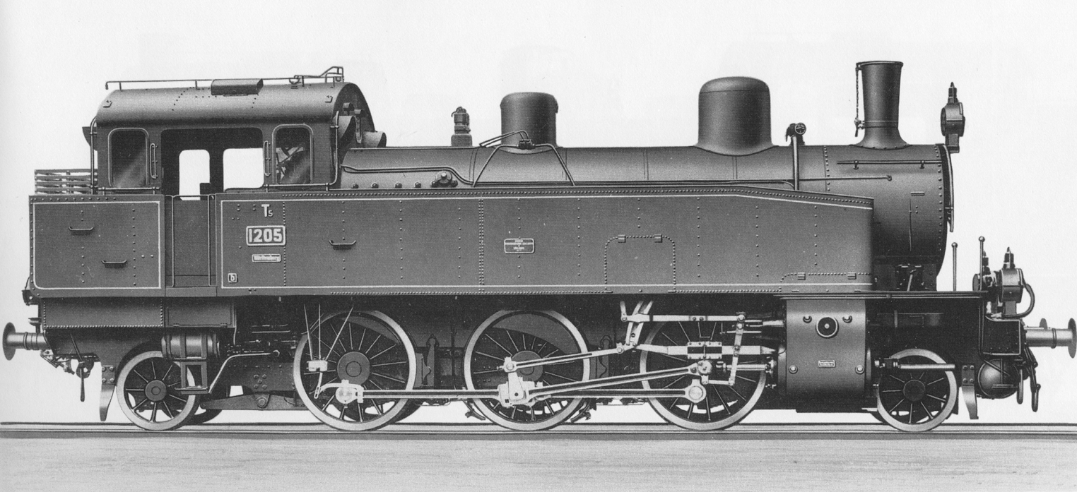 Steam locomotive Württemberg T 5.